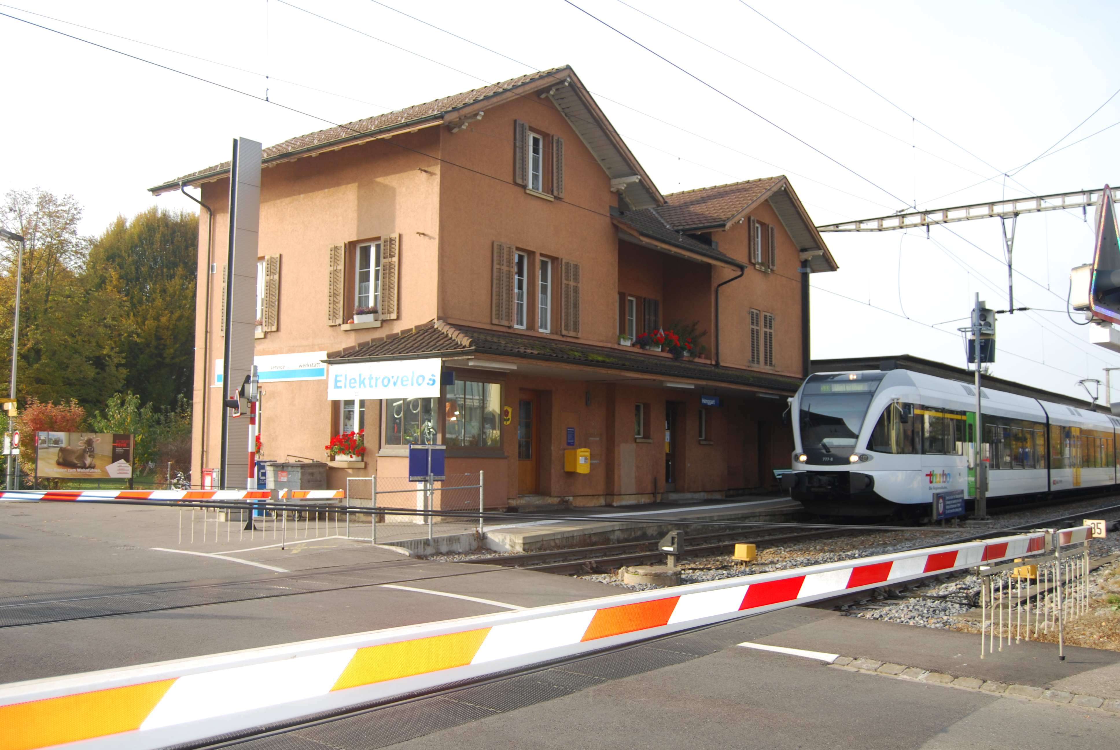 Train station of Henggart, canton of Zürich, SwitzerlandEsperanto: Stacidomo de Henggart, Kantono Zuriko, Svislando